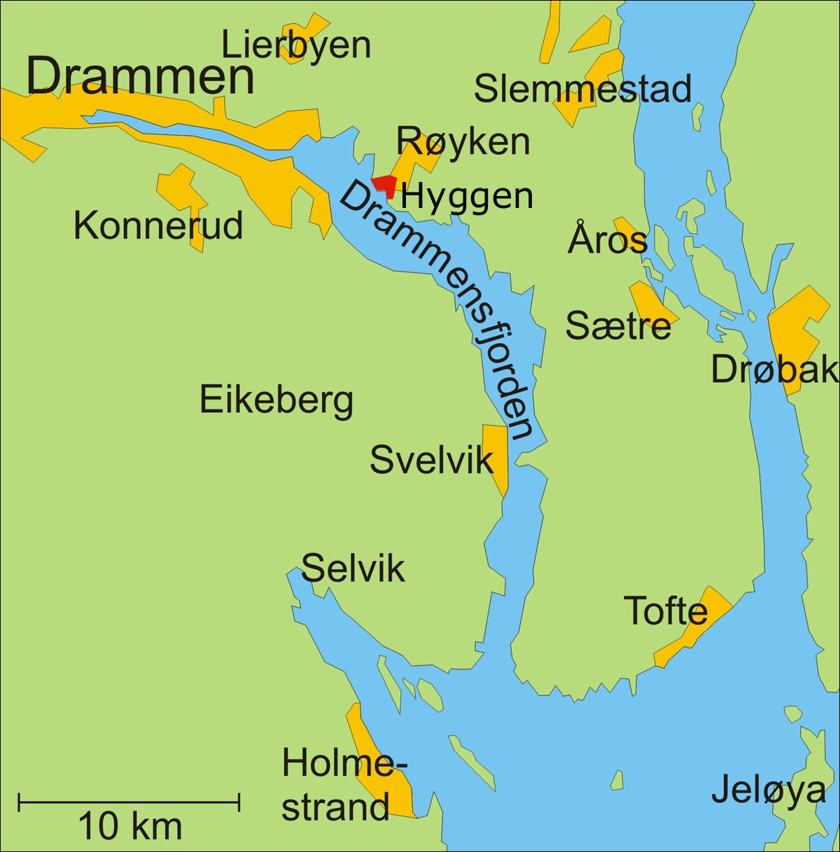 Map of Hurumlandet, with Hyggen marked. My own, Kjetil Lenes, derivate work from a map by Finn Bjørklid.